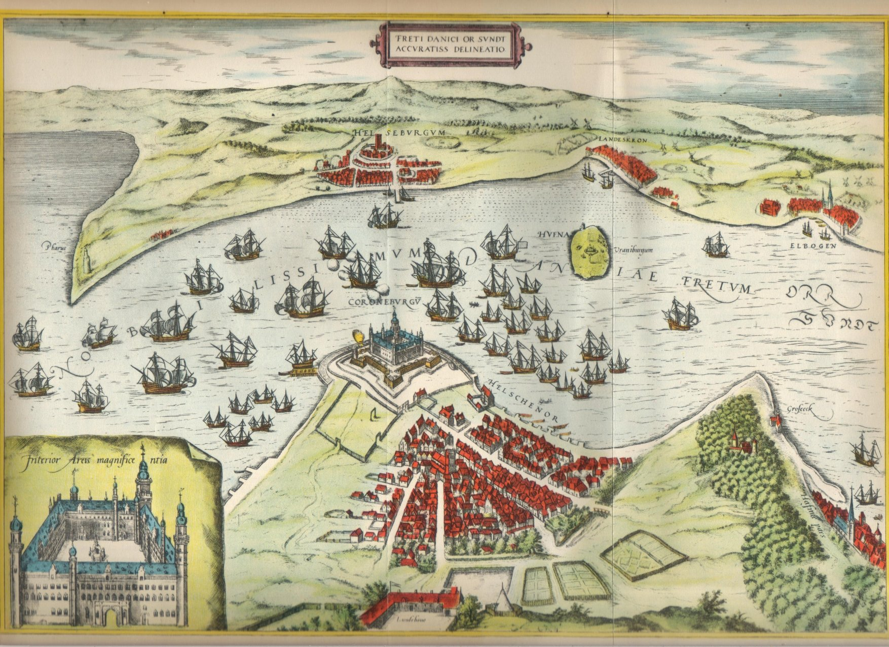 Kronborg castle and Oresund from the 1580s geography book Civitates Orbis Terrarum, book 4, map #26, "Coroneburgum"